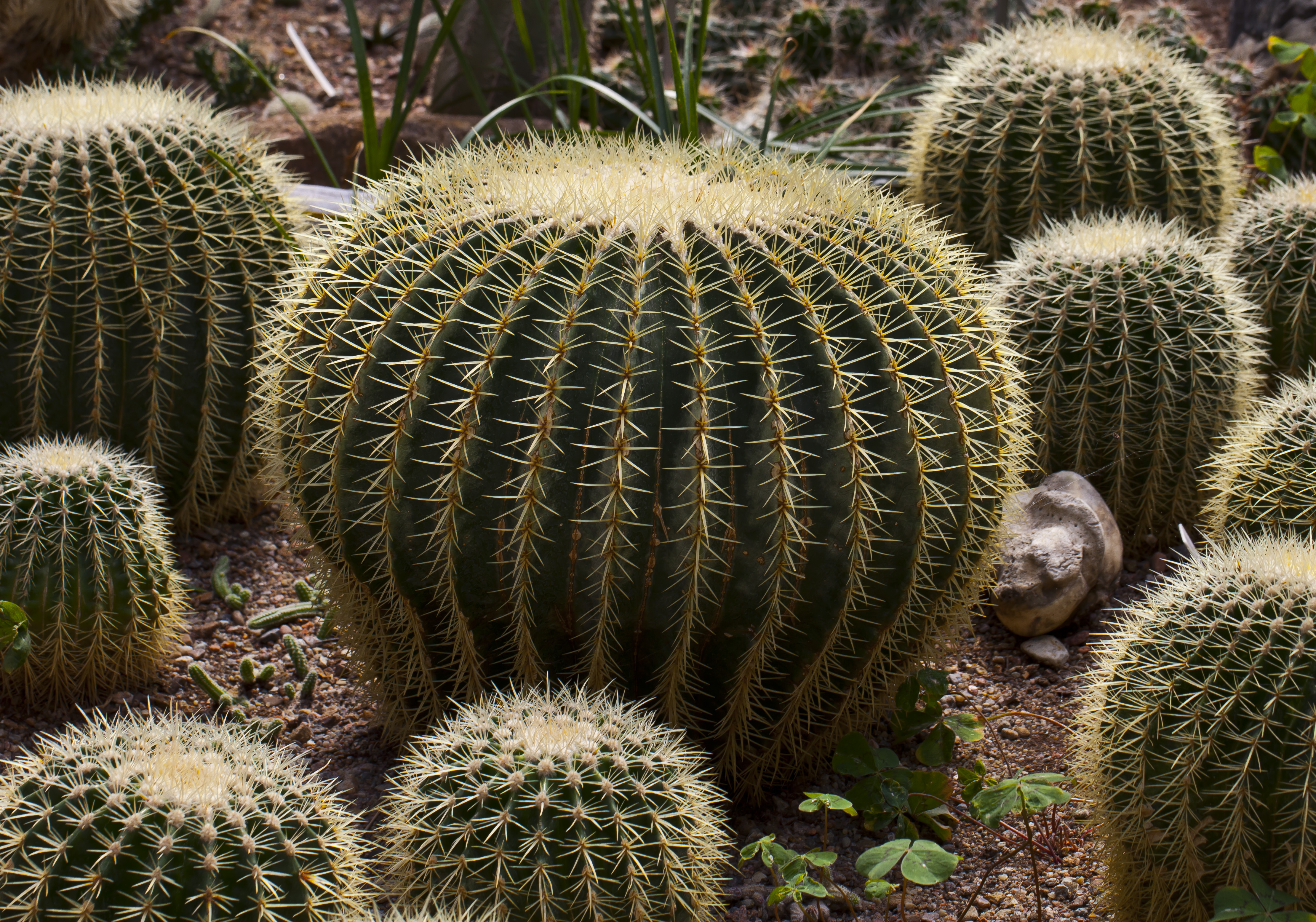 Golden Barrel Cactus (Echinocactus grusonii), Tallinn Botanic Garden, Estonia